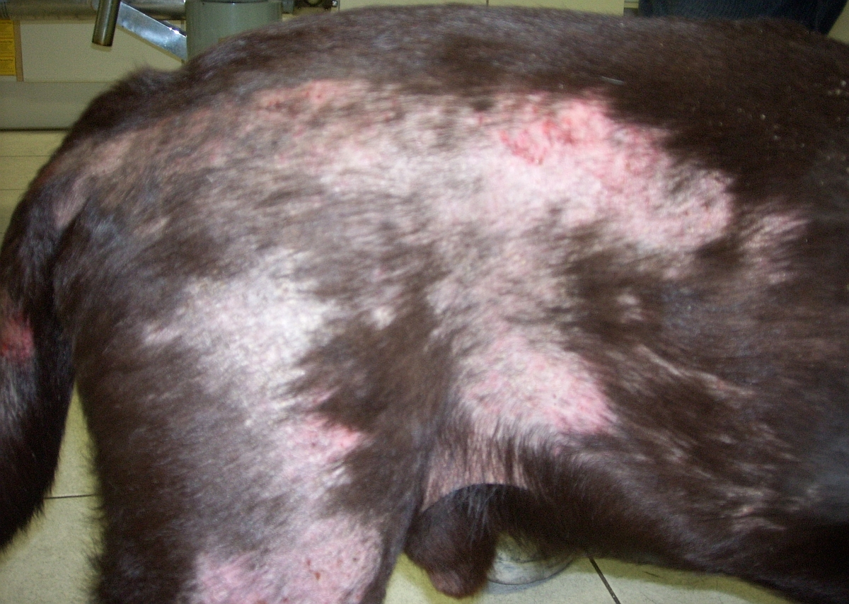 severe Cheyletiellosis in a Labrador Retriever